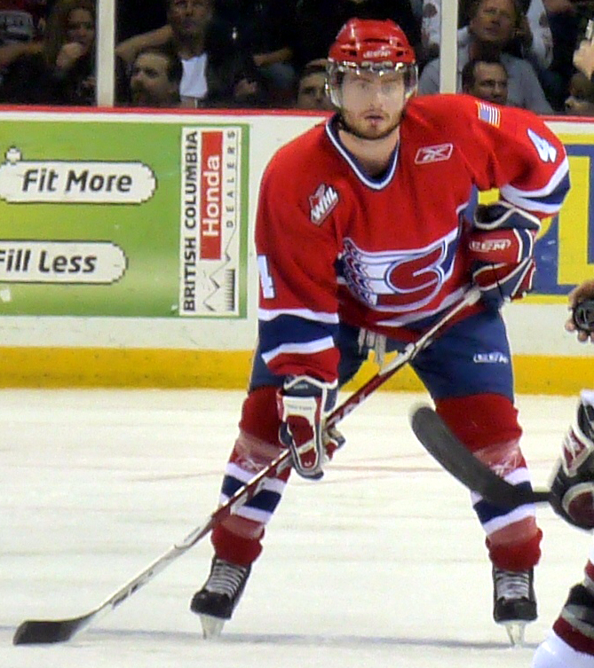 Spokane Chiefs defenceman Mike Reddington in game seven of the second round of the 2009 WHL playoffs against the Vancouver Giants.